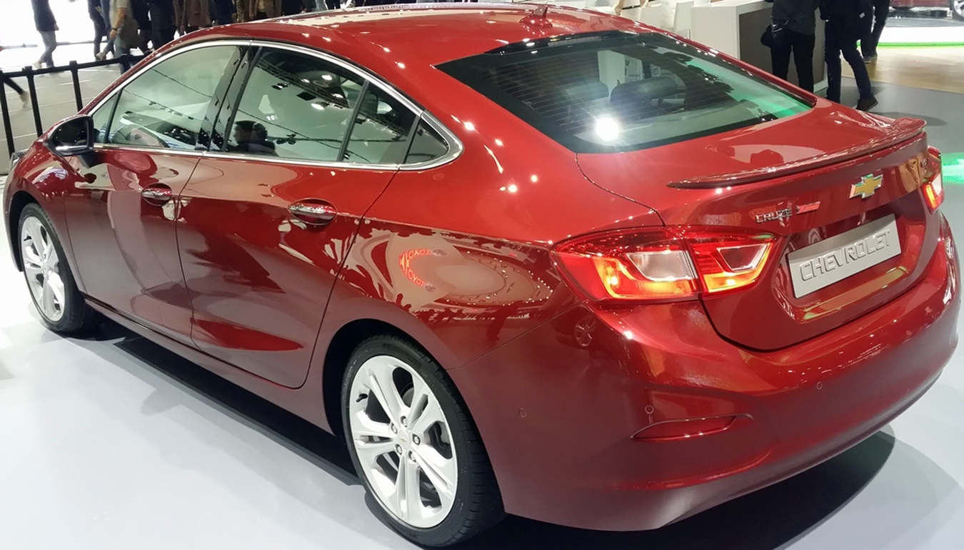 Chevrolet All New Cruze